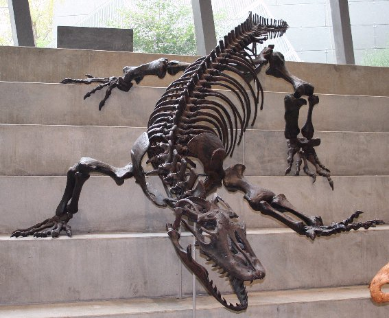 Varanus priscus skeleton, Melbourne Museum